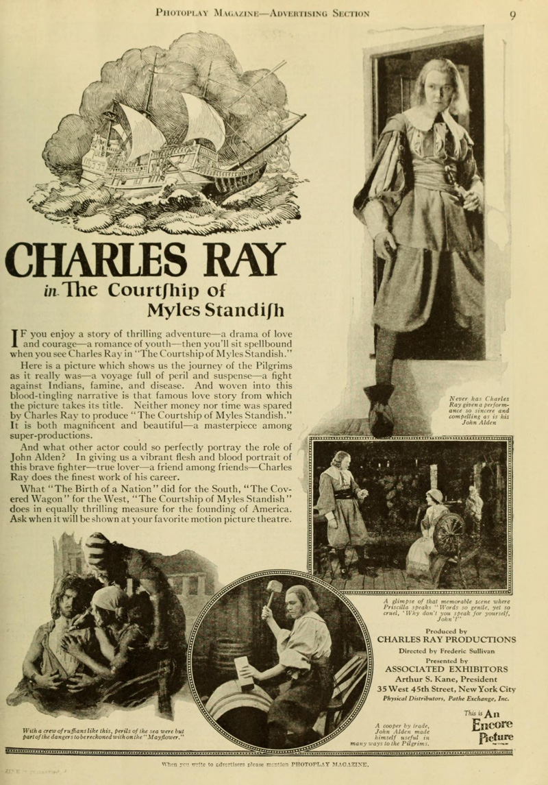 The Courtship of Myles Standish is a 1923 movie, this is an advertisement that was published in Photoplay Magazine without a copyright notice.